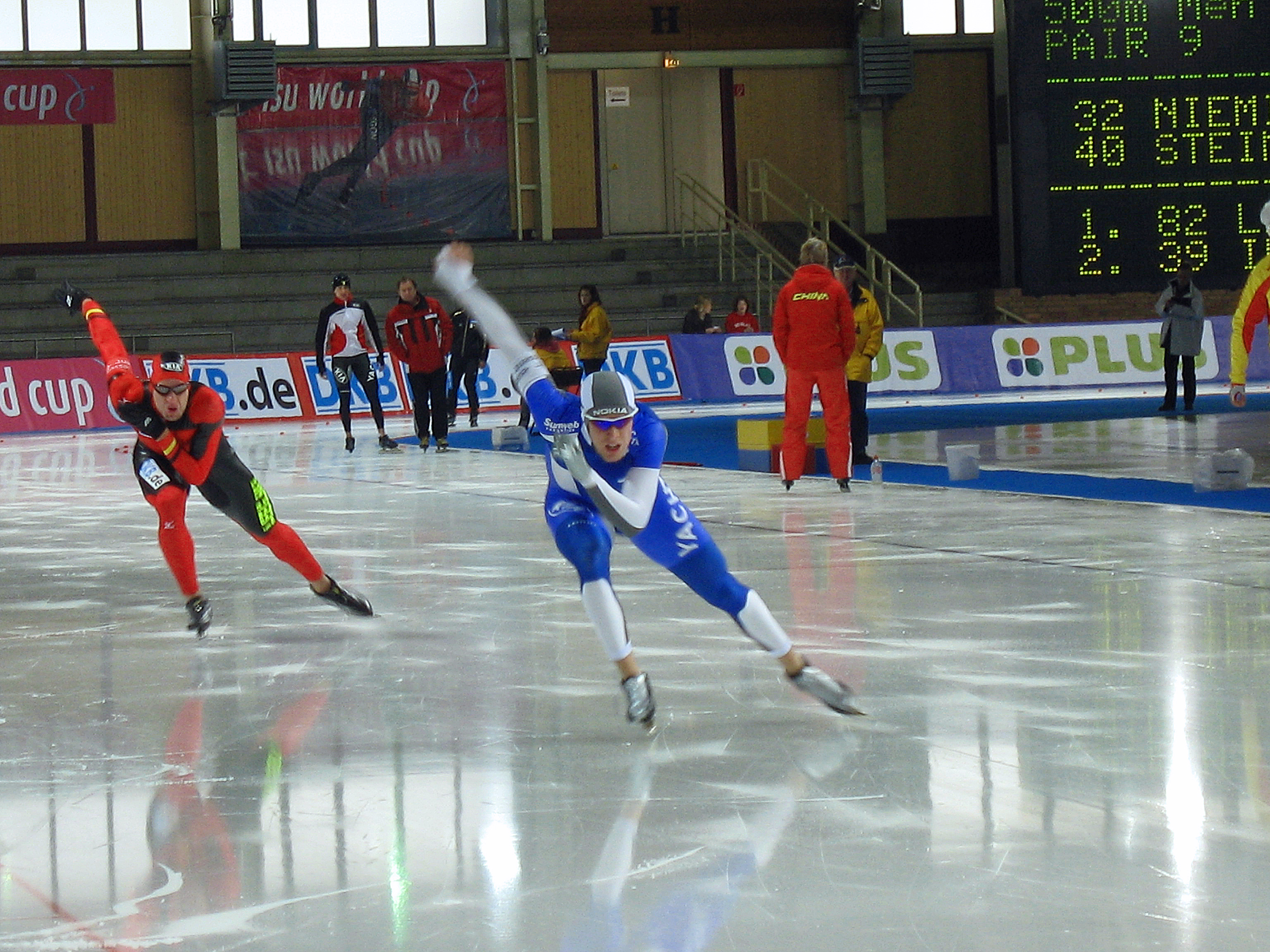 Tuomas Nieminen racing the 500m during World Cup Berlin november 2008